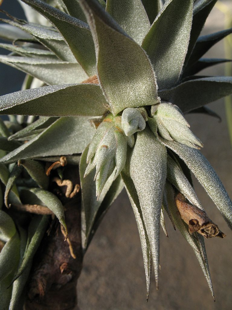 Tillandsia reclinata, in cultivation at the Botanical Garden of Heidelberg, Germany.